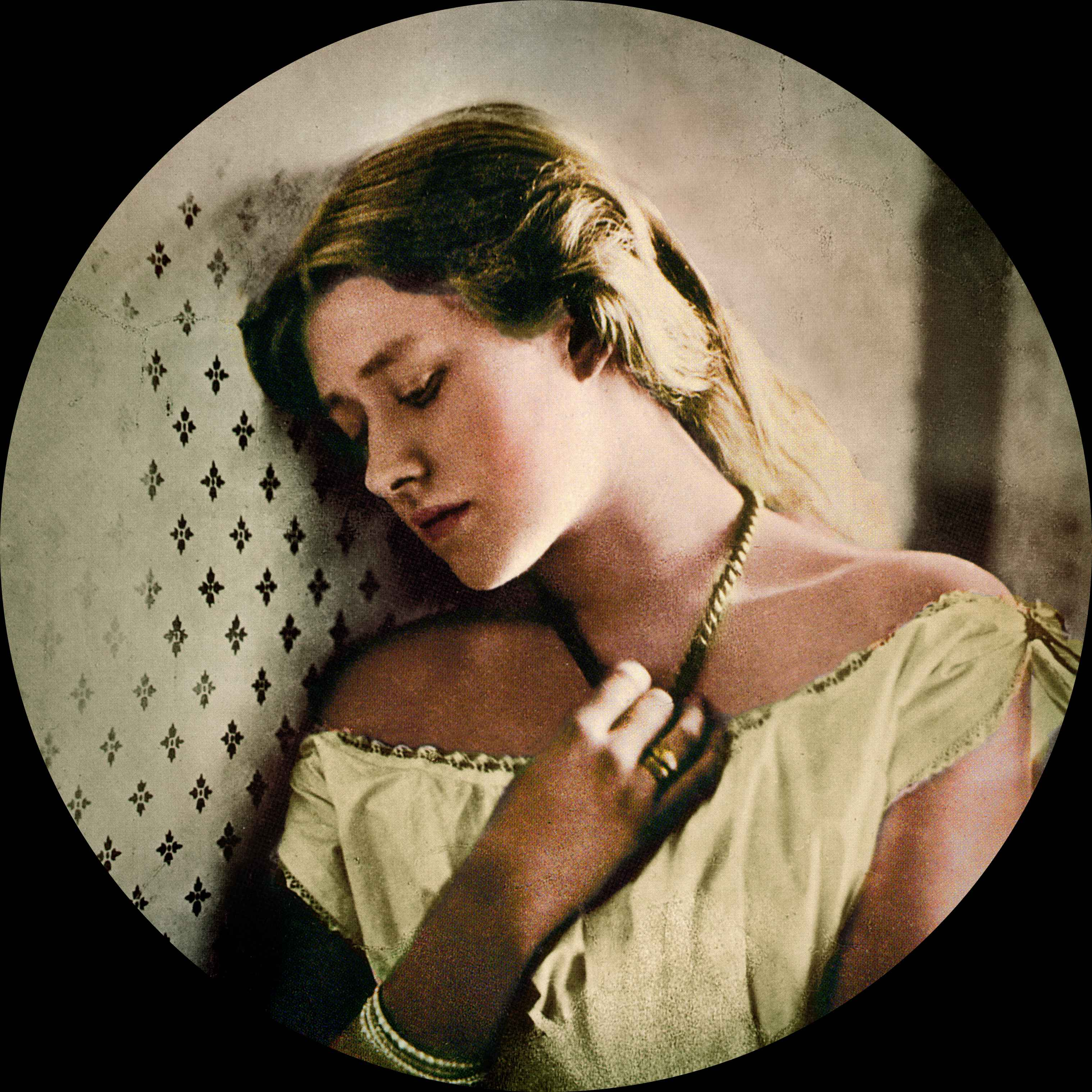 A photograph of the actress Ellen Terry, taken when she was sixteen, about the time of her marriage to GF Watts. By Julia Margaret Cameron The b/w image from wikimedia commons: by Julia Margare... Coloured by me using PhotoShop